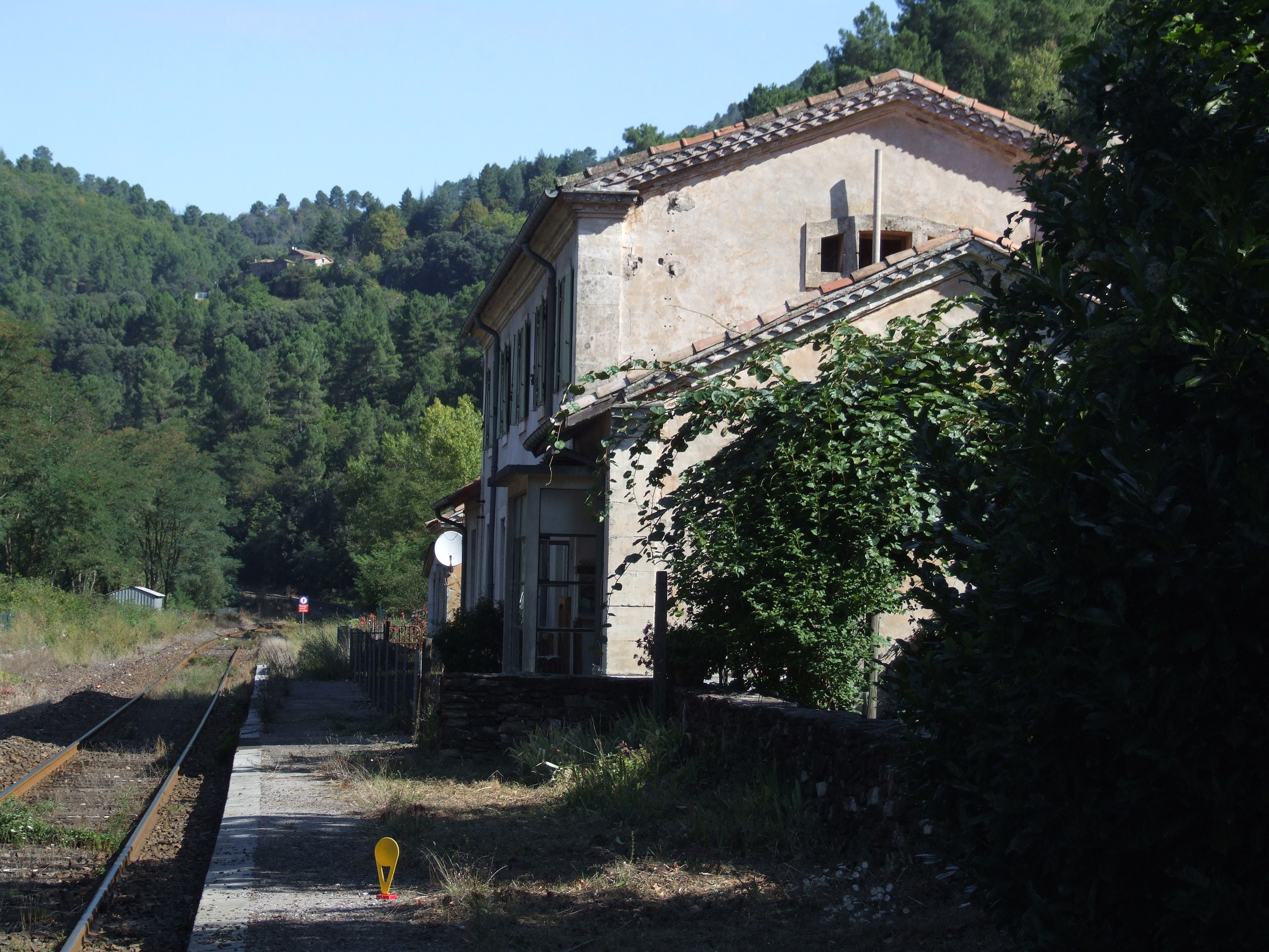 Ste Cecile is a hamlet in the Sainte-Cécile-d'Andorge commune, situated on the River Gardon d'Alès on the N106 to north of La Grand-Combe in the departement of Gard in the region Languedoc-Roussillon in southern France. Its post code is F30110 and INSEE 30239.